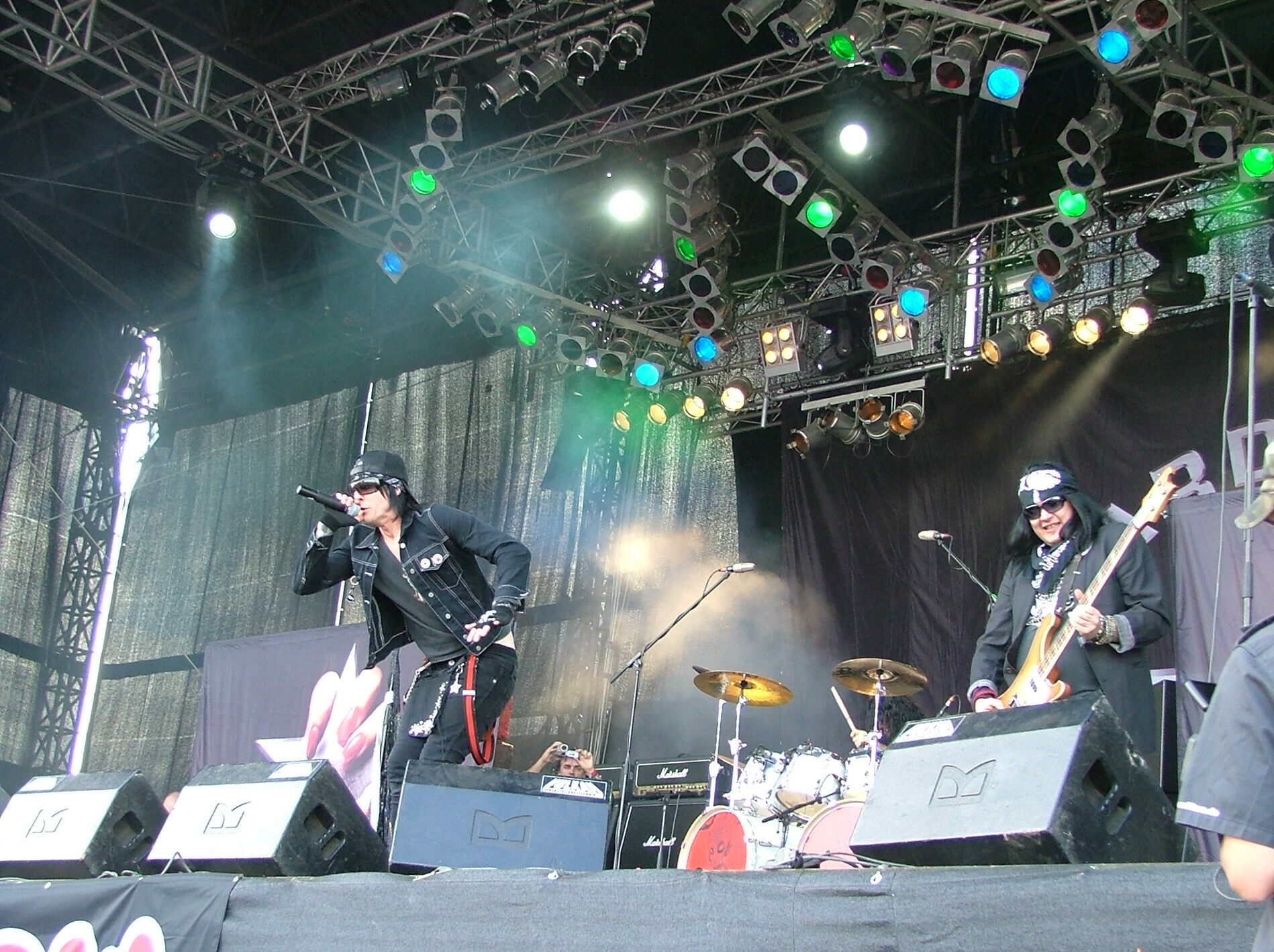 Swedish hard rock and sleaze rock band Hardcore Superstar at the Summer Breeze in Dinkelsbühl